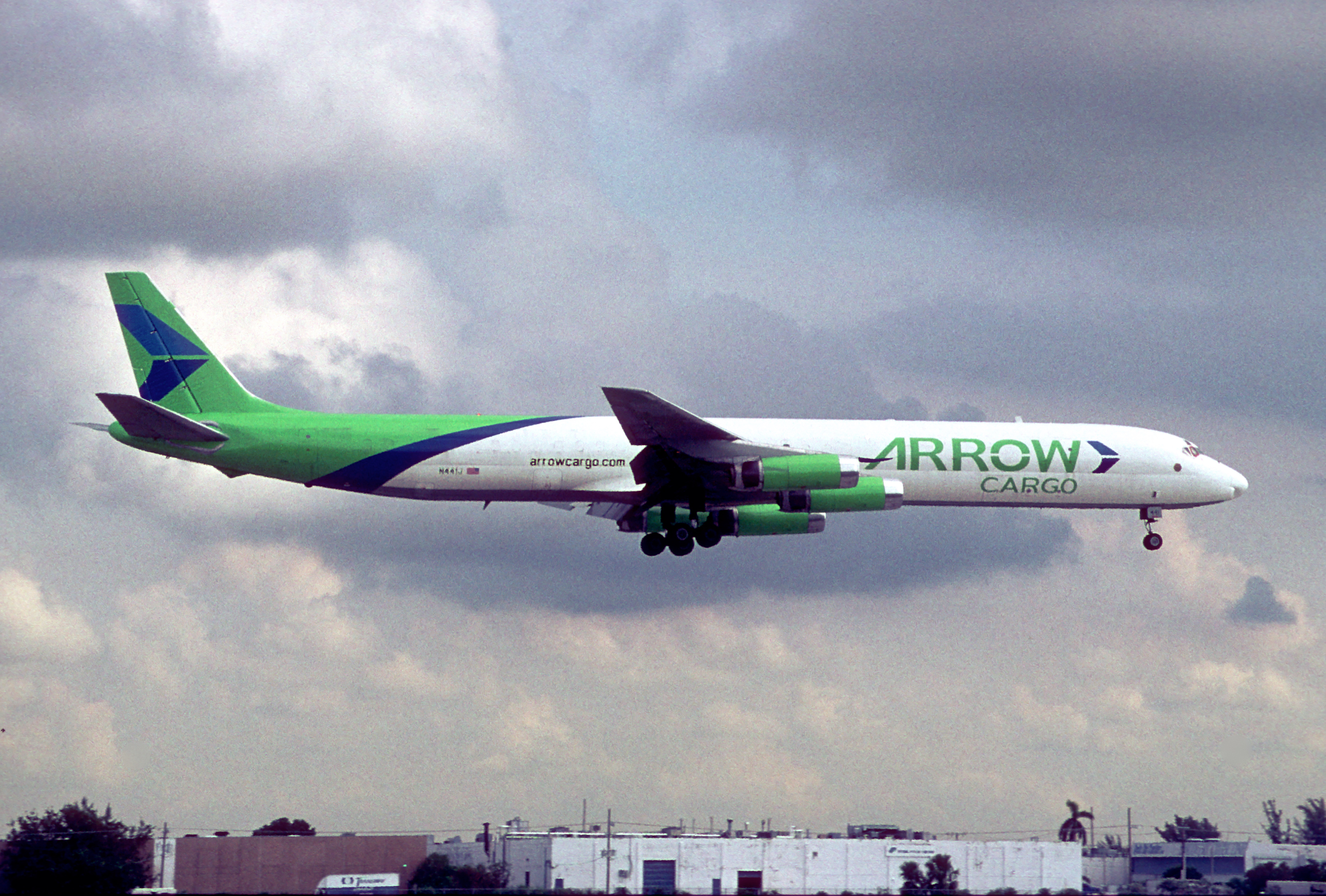 375ct - Arrow Air DC-8-63F; N441J@MIA;01.09.2005